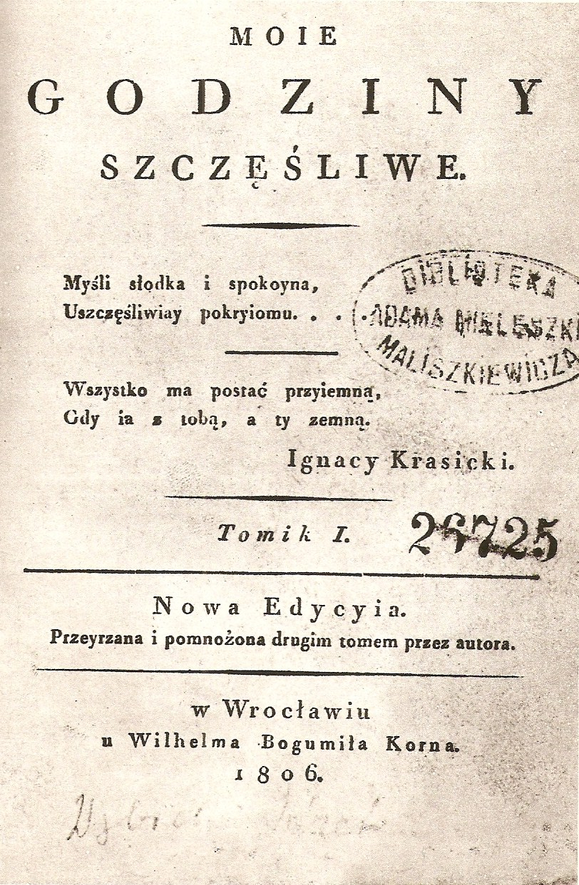 Józef Wybicki, "Moje godziny szczęśliwe" (1806)